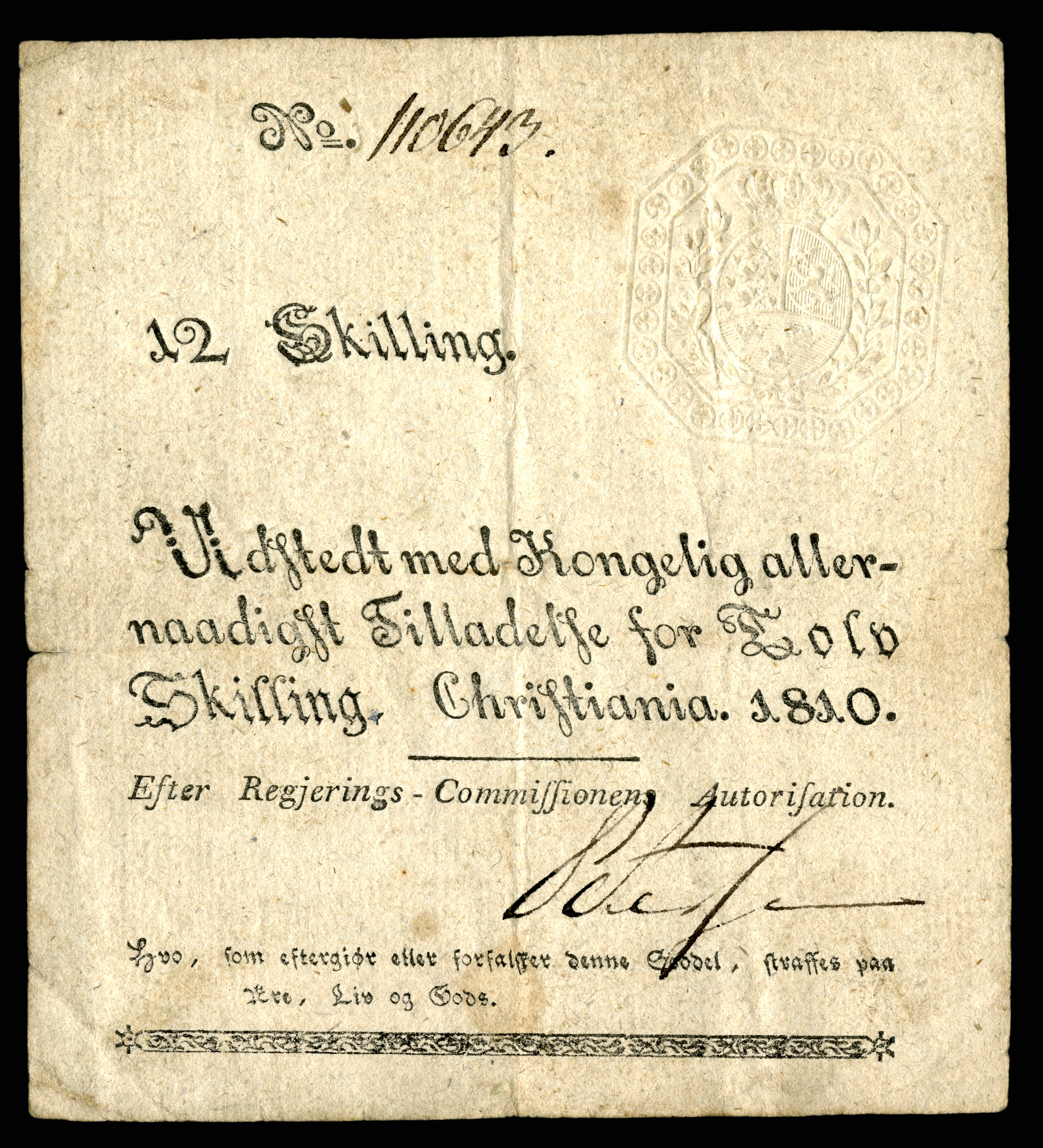 Kingdom of Norway, Regerings Kommission, 12 Skilling (1810)